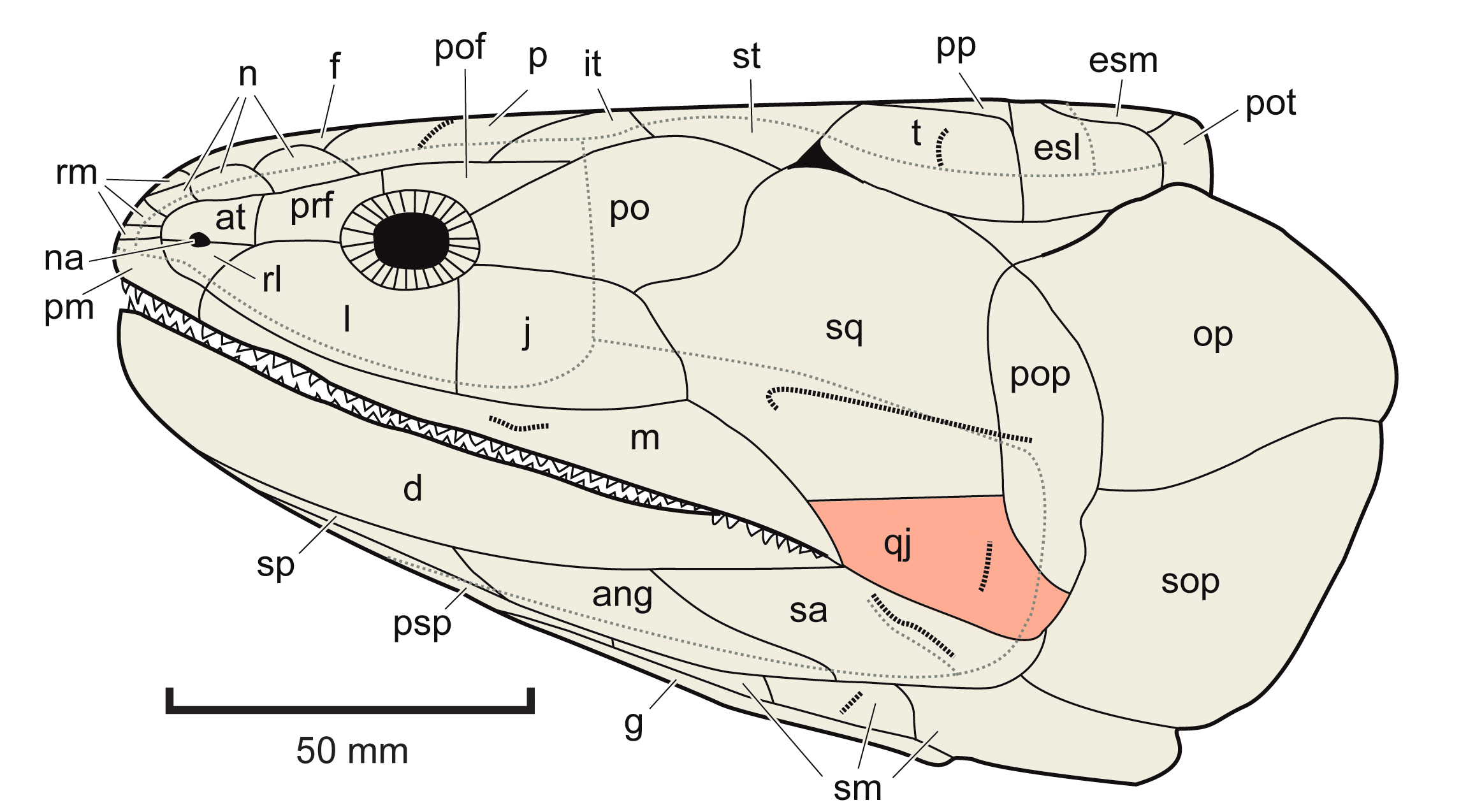 An edited version of the source file with Mimipiscis cropped out.